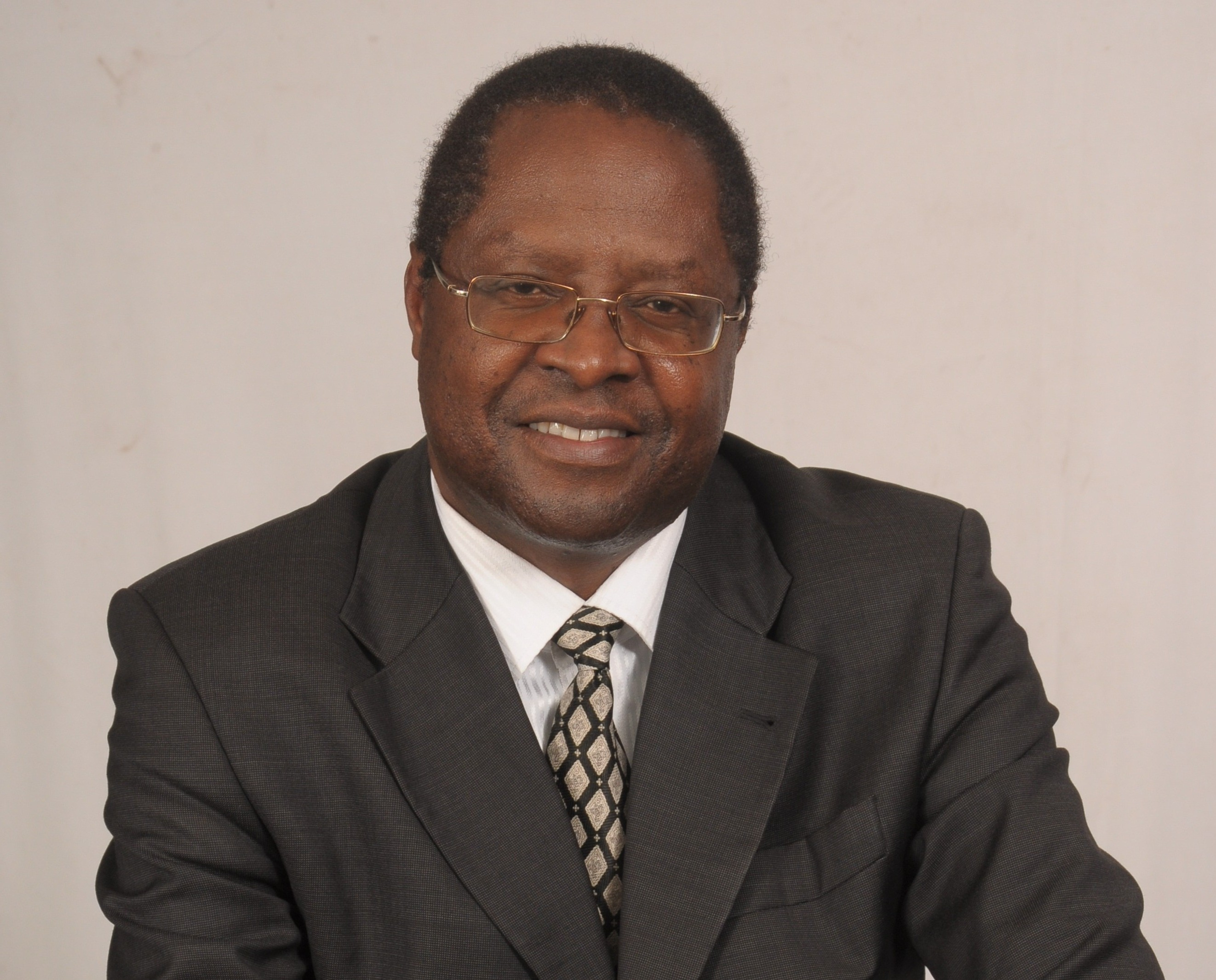 Martin